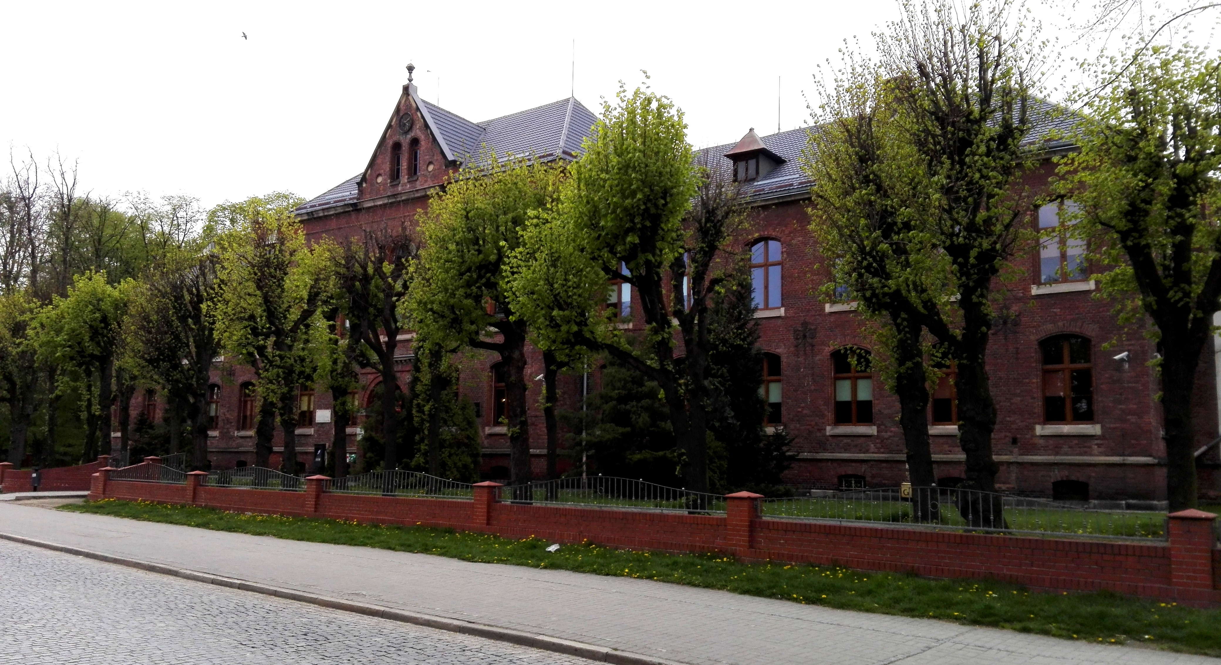 2 Gimnazjalna Street in Prudnik